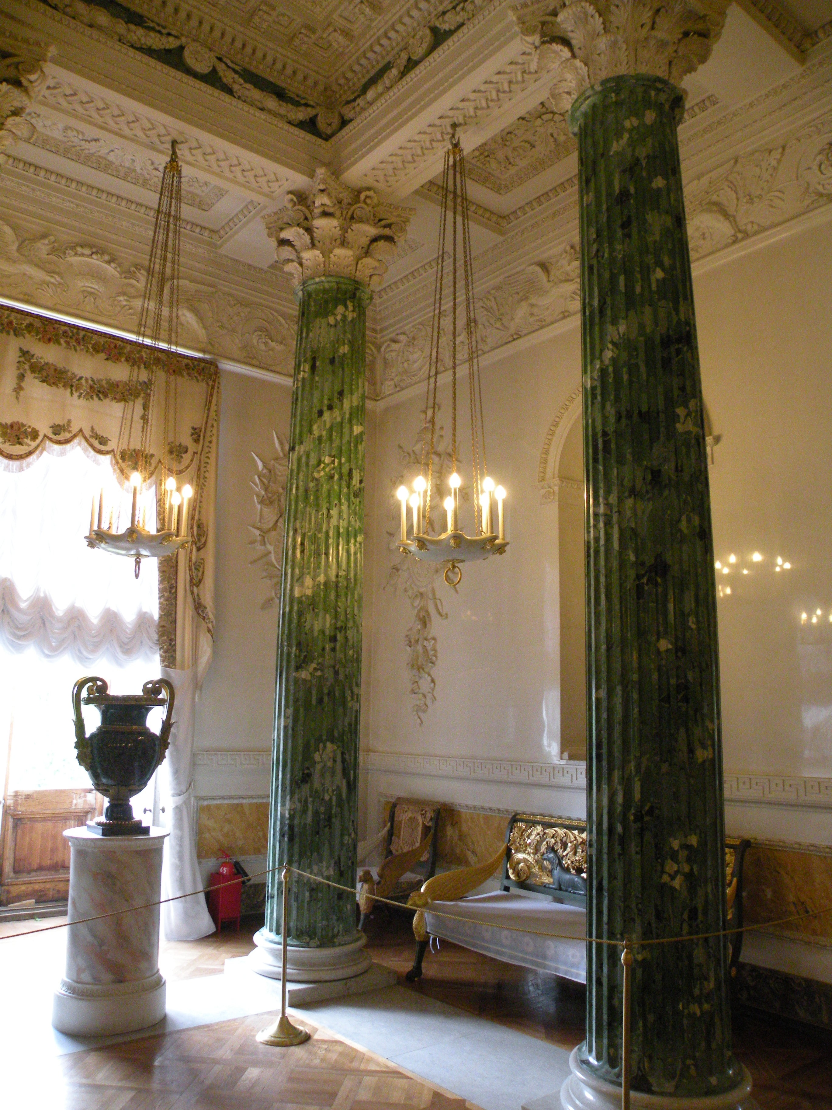 Greek Hall of Pavlovsk Palace